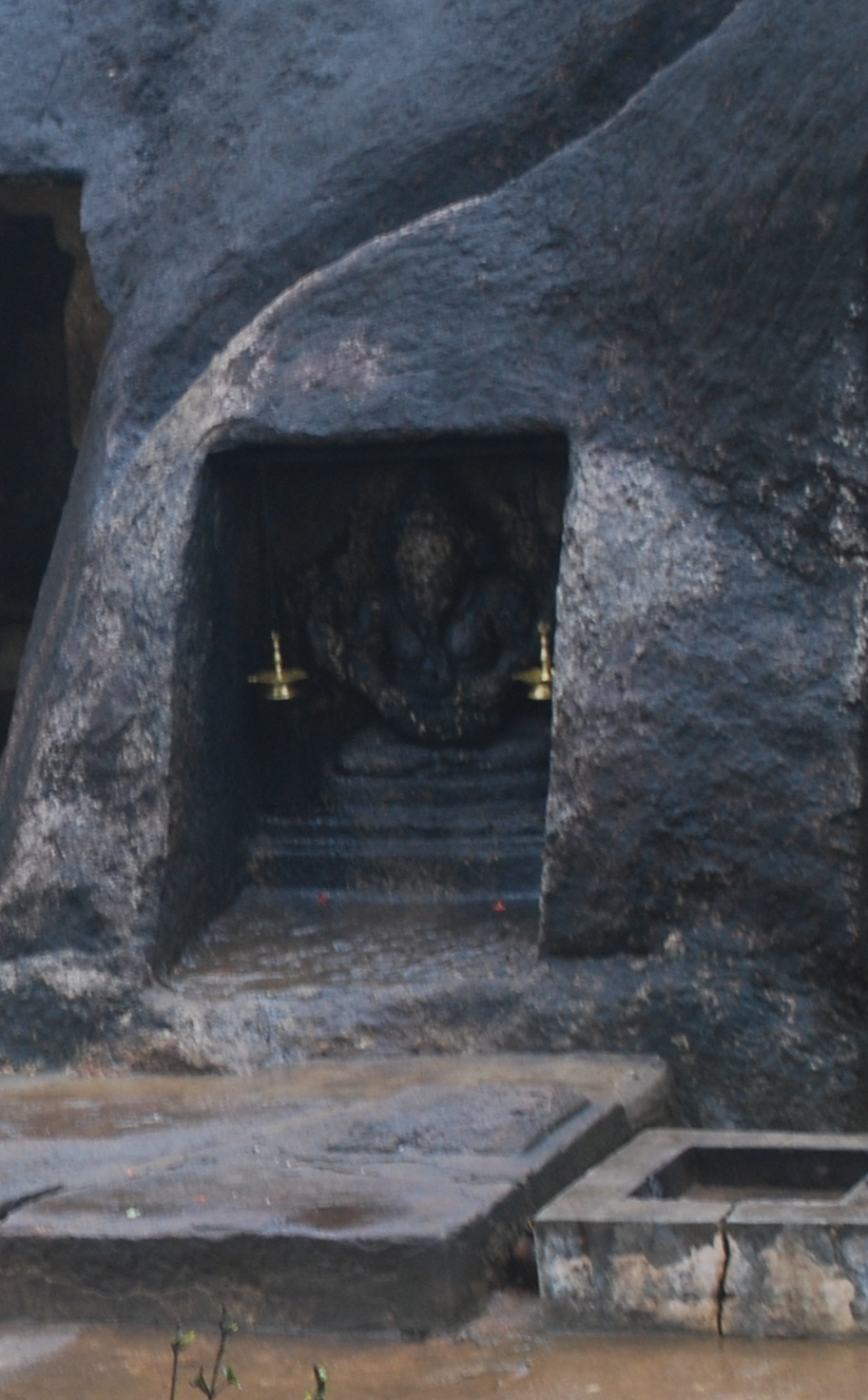 Kottukal cave temple ,Kollam